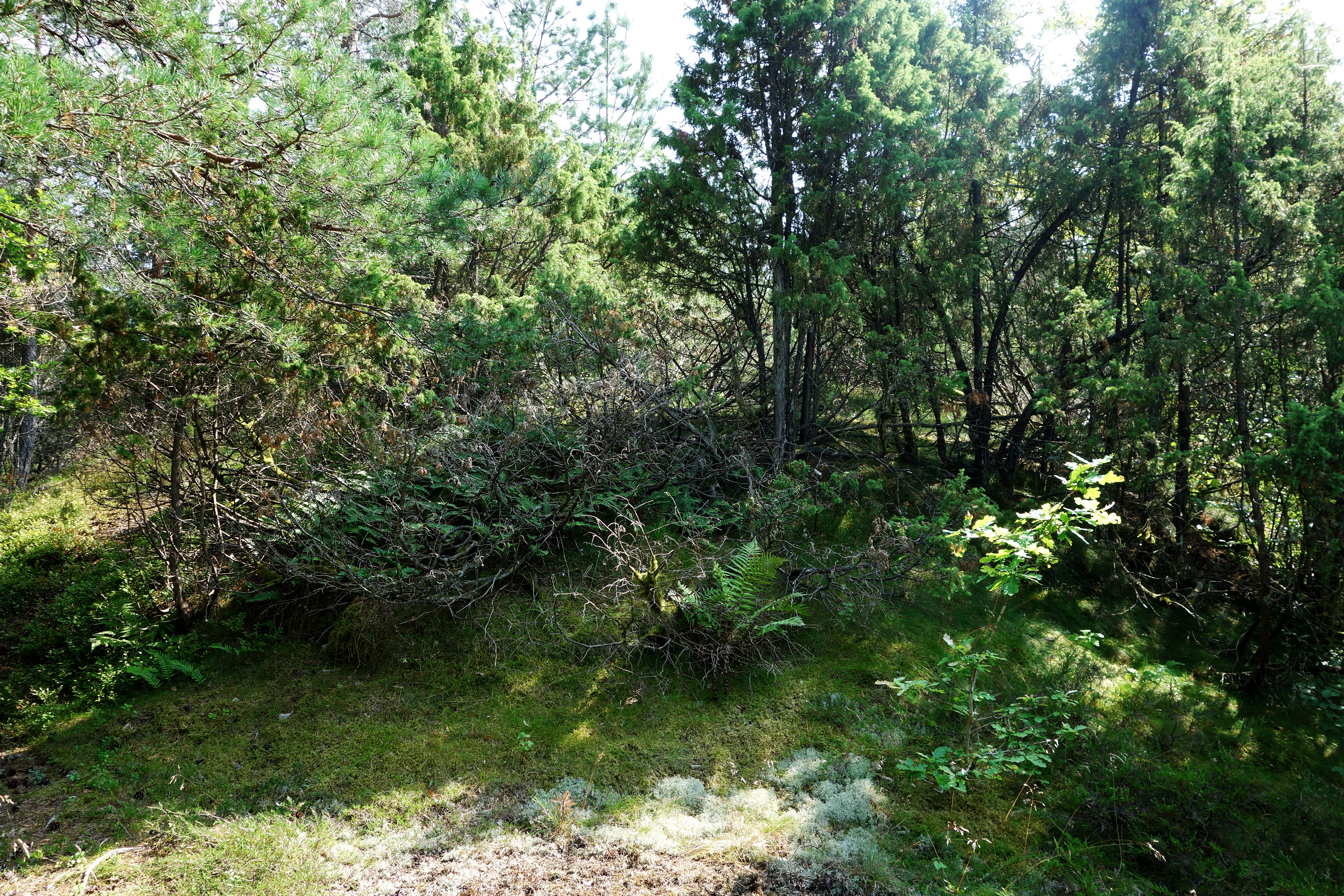 Grave on Semsåsen, Nøtterøy, Norway